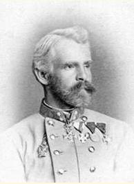 Duke William of Württemberg